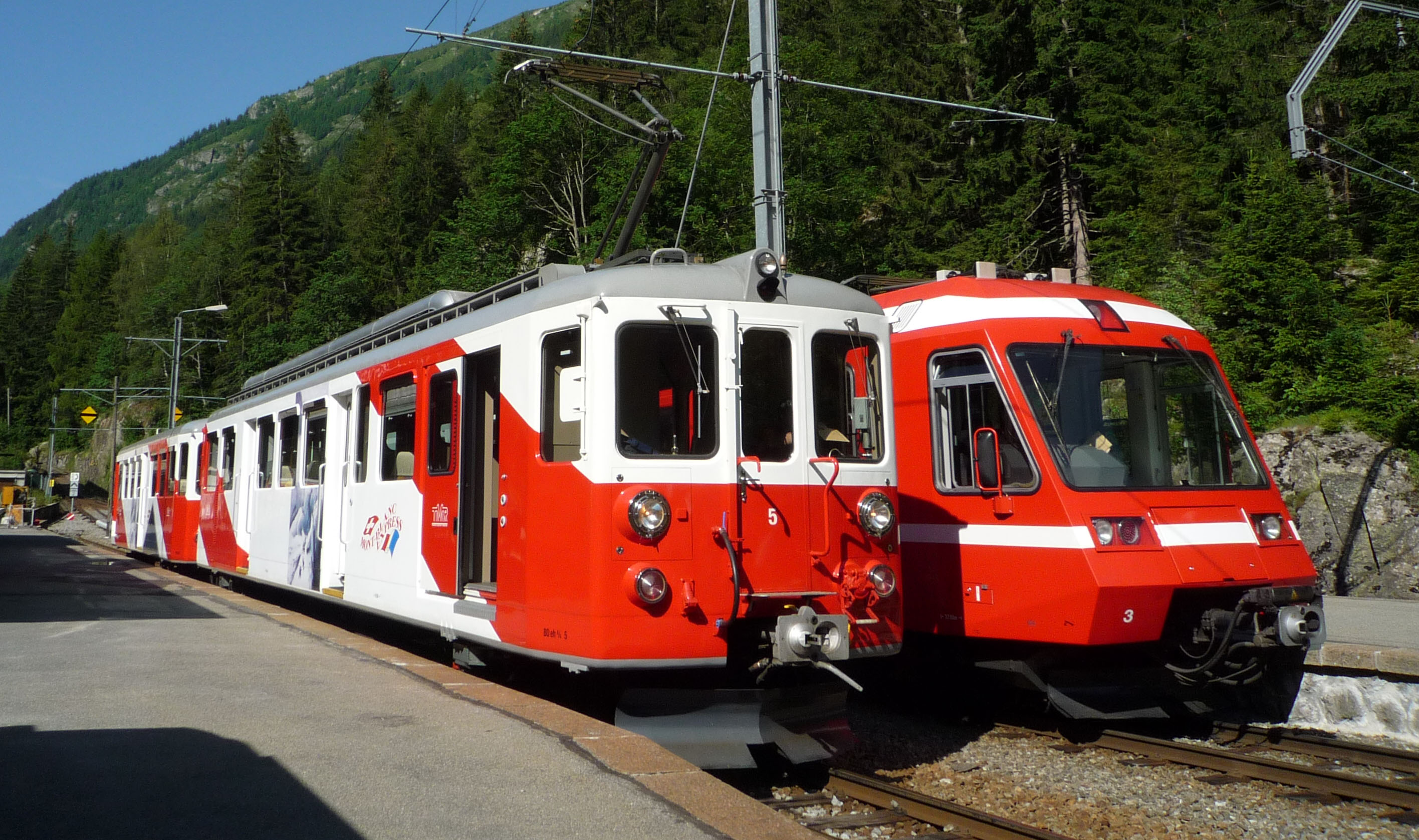 Z800 and BDeh at Châtelard-Frontière station